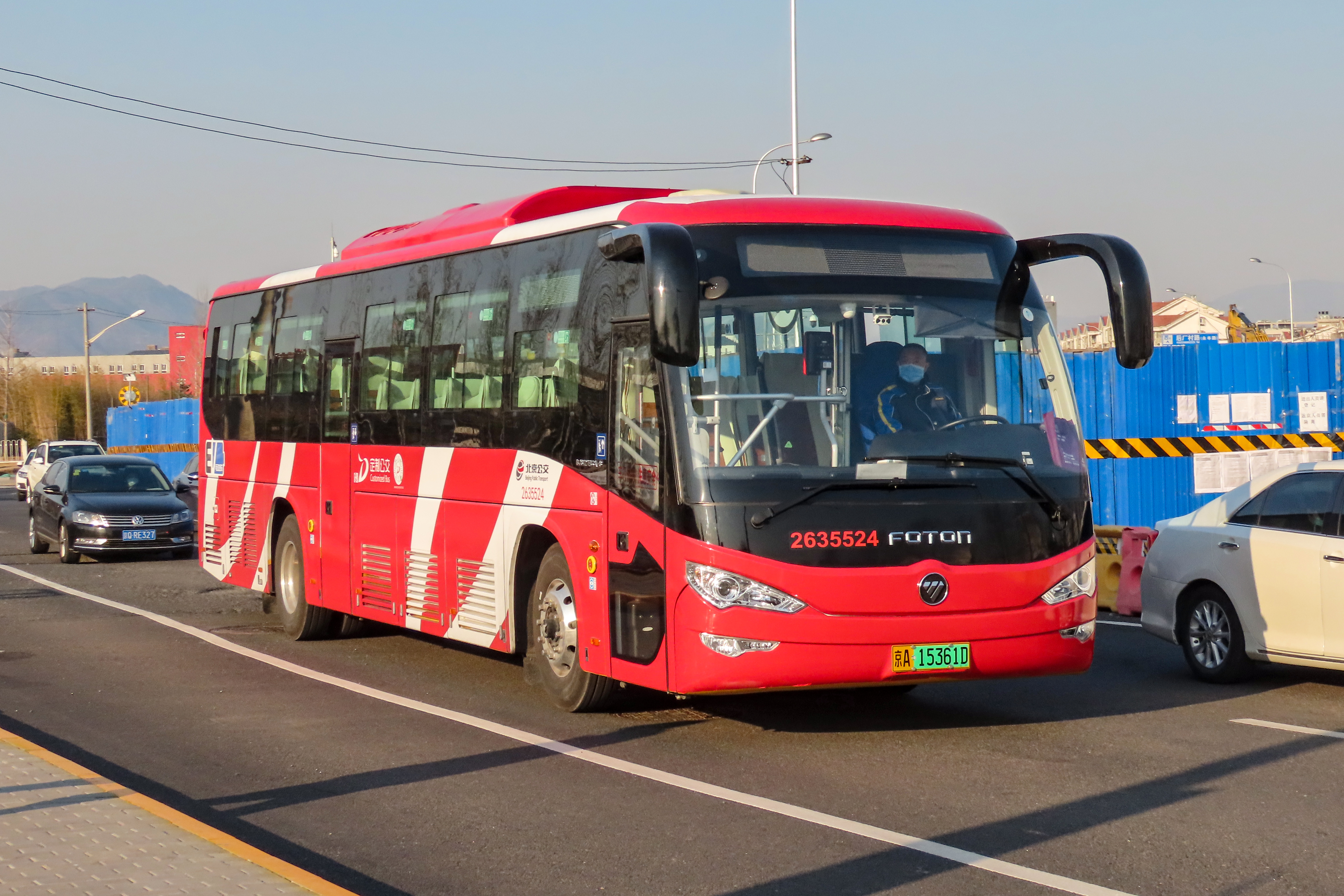 This is a BJ6127EVCA-6 according to this list, running a "customized" morning commuter route.